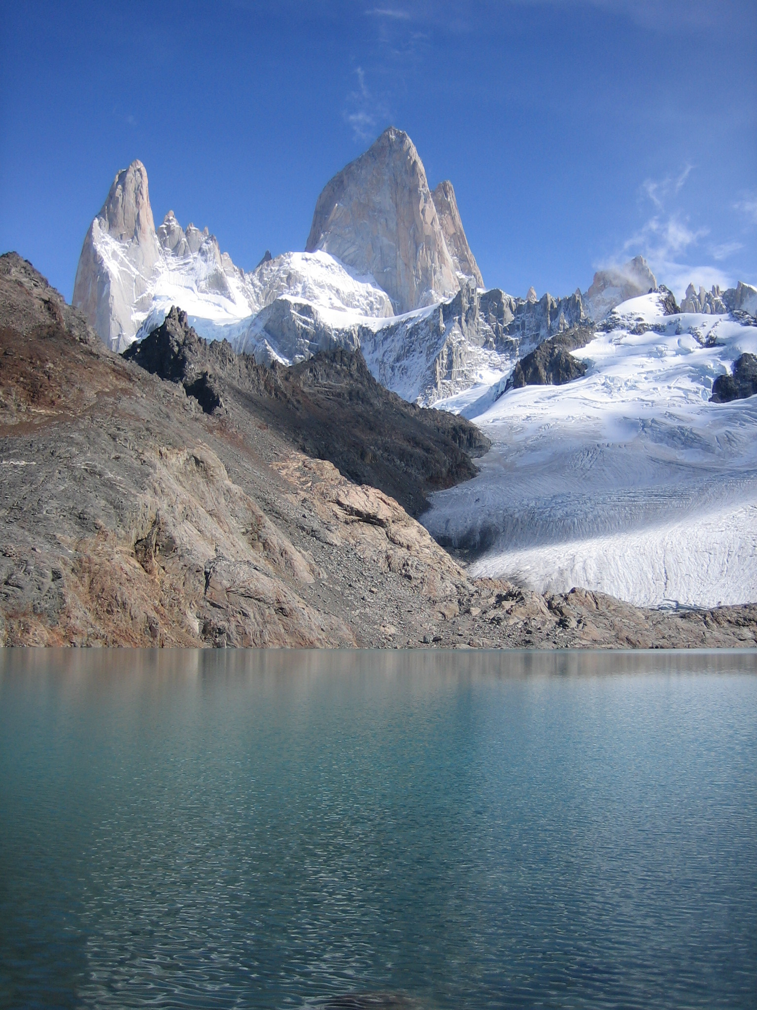 Monts Fitz Roy